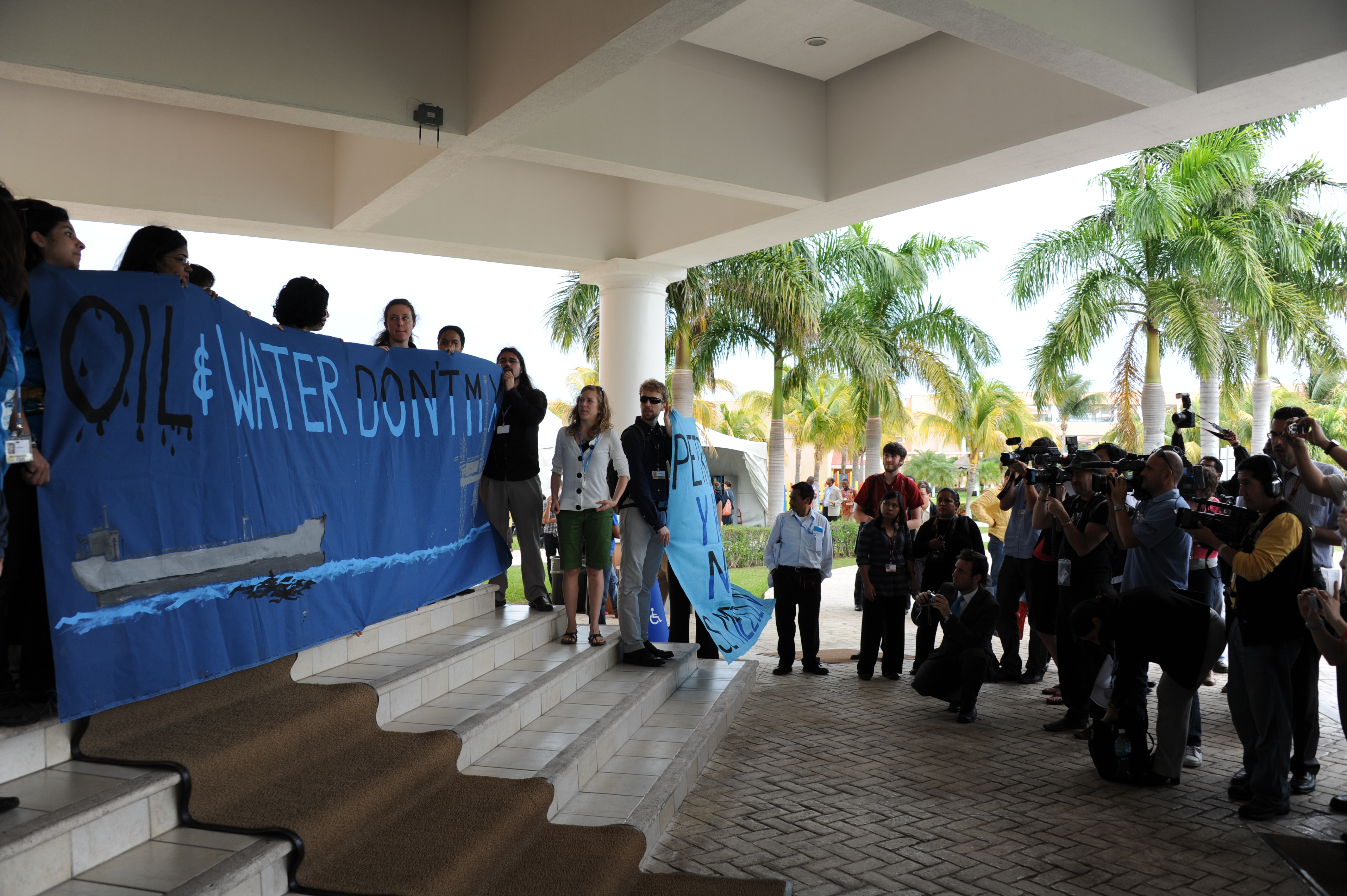 UN Climate Talks 2010. Cancun, Mexico. by United Nations